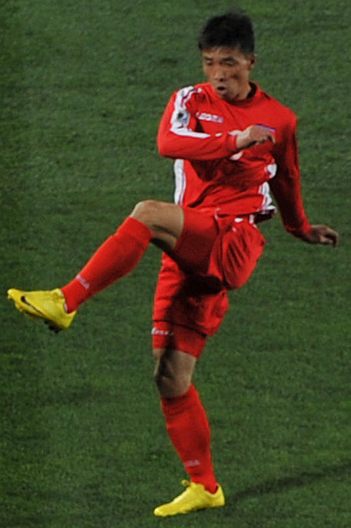 Chi Jun Nam, North Korean soccer player at FIFA 2010 World Cup vs. Brasil team. 15 June 2010